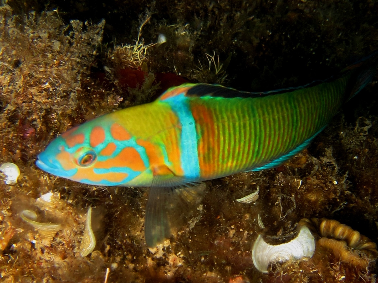 Thalassoma pavo male of the Mediterranean (Costa brava).